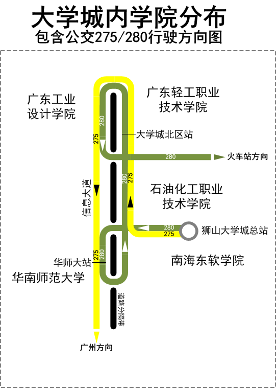 The School distribution Map for Shishan High Education Mega Center